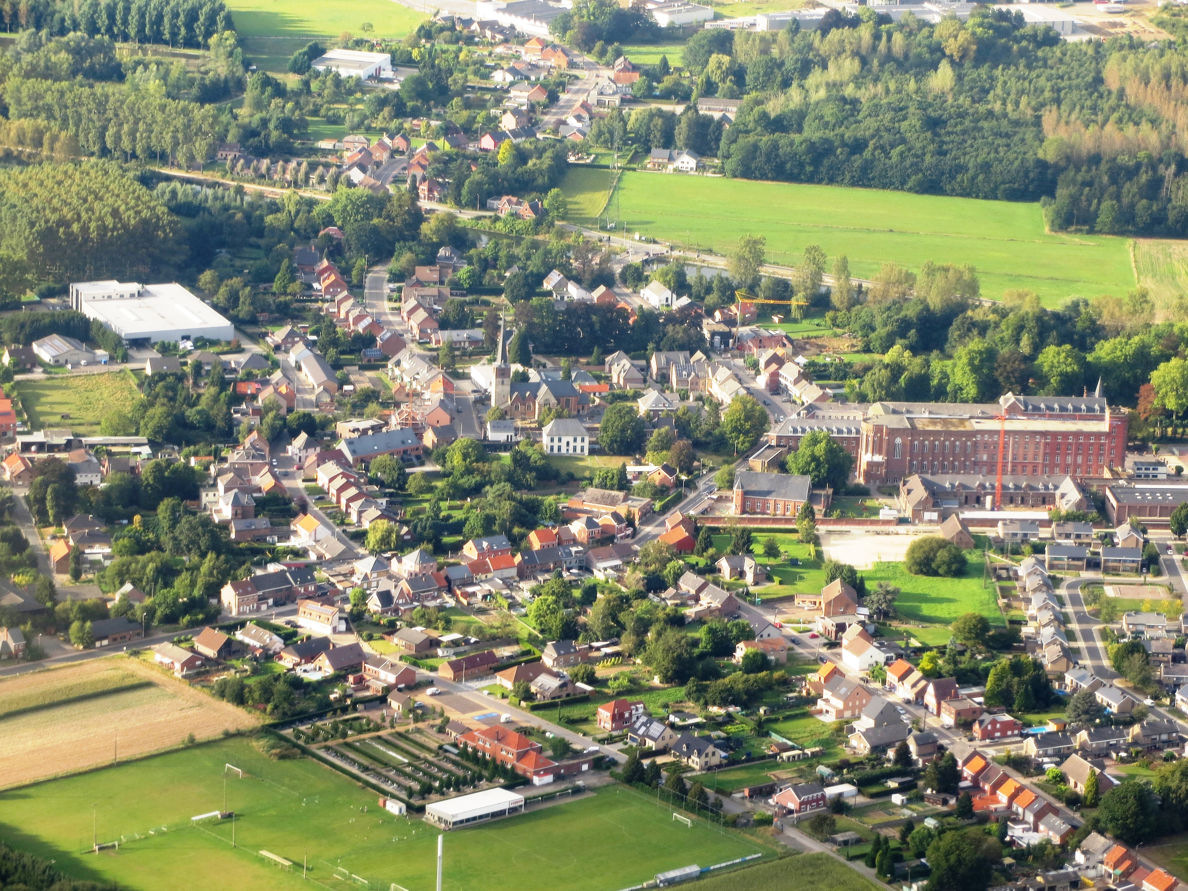 Aerial view from the east towards west. from the northern part of Belgium (Leuven-Hageland region).